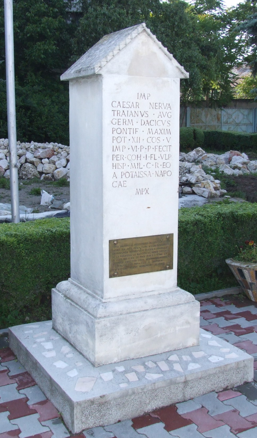 Copy of the Roman milliarium discovered in Aiton commune, near Cluj-Napoca, Romania, dating from 108 AD and showing the construction of the road from Potaissa to Napoca, by demand of the Emperor Trajan. It indicates the distance of ten thousand feet (P.M.X.) to Potaissa. It is the first epigraphical attestation of the settlements of Potaissa and Napoca in Roman Dacia. This monument was erected in June 1993 in front of the Turda Post Office (Dec. 1, 1918 Street). The complete inscription is: "Imp(erator)/ Caesar Nerva/ Traianus Aug(ustus)/ Germ(anicus) Dacicus/ pontif(ex) maxim(us)/ (sic) pot(estate) XII co(n)s(ul) V/ imp(erator) VI p(ater) p(atriae) fecit/ per coh(ortem) I Fl(aviam) Vlp(iam)/ Hisp(anam) mil(liariam) c(ivium) R(omanorum) eq(uitatam)/ a Potaissa Napo/cam / m(ilia) p(assuum) X". The inscription was recorded in Corpus Inscriptionum Latinarum, vol.III, the 1627, Berlin, 1863.